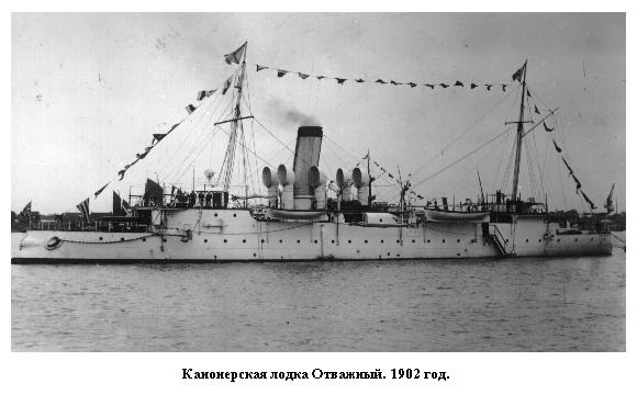 Imperial Russian gunboat Otvazhnyy, 1902.